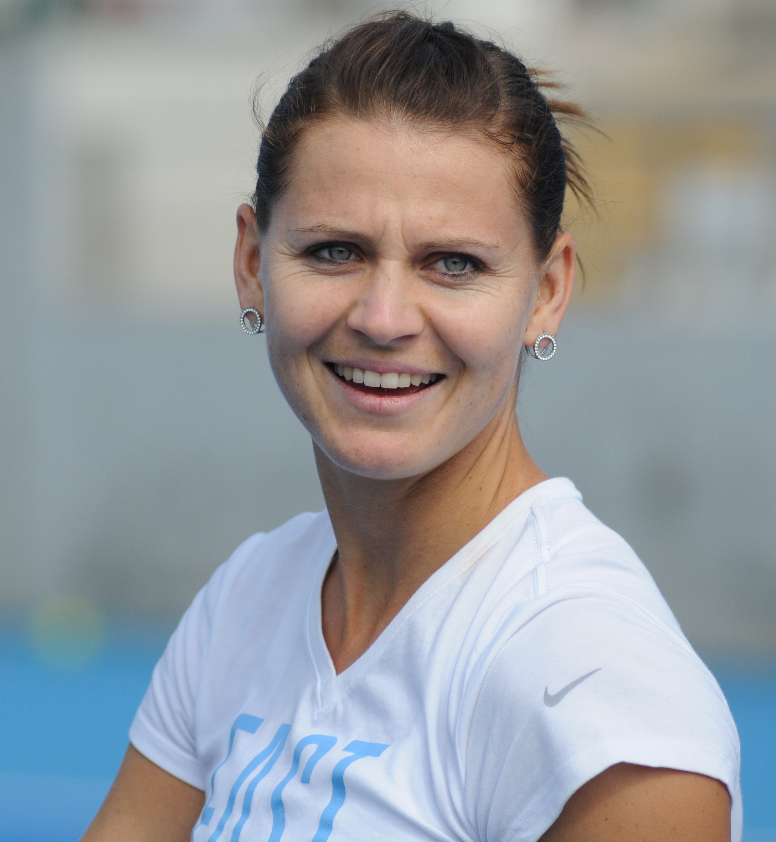 Lucie Šafářová at the 2014 China Open